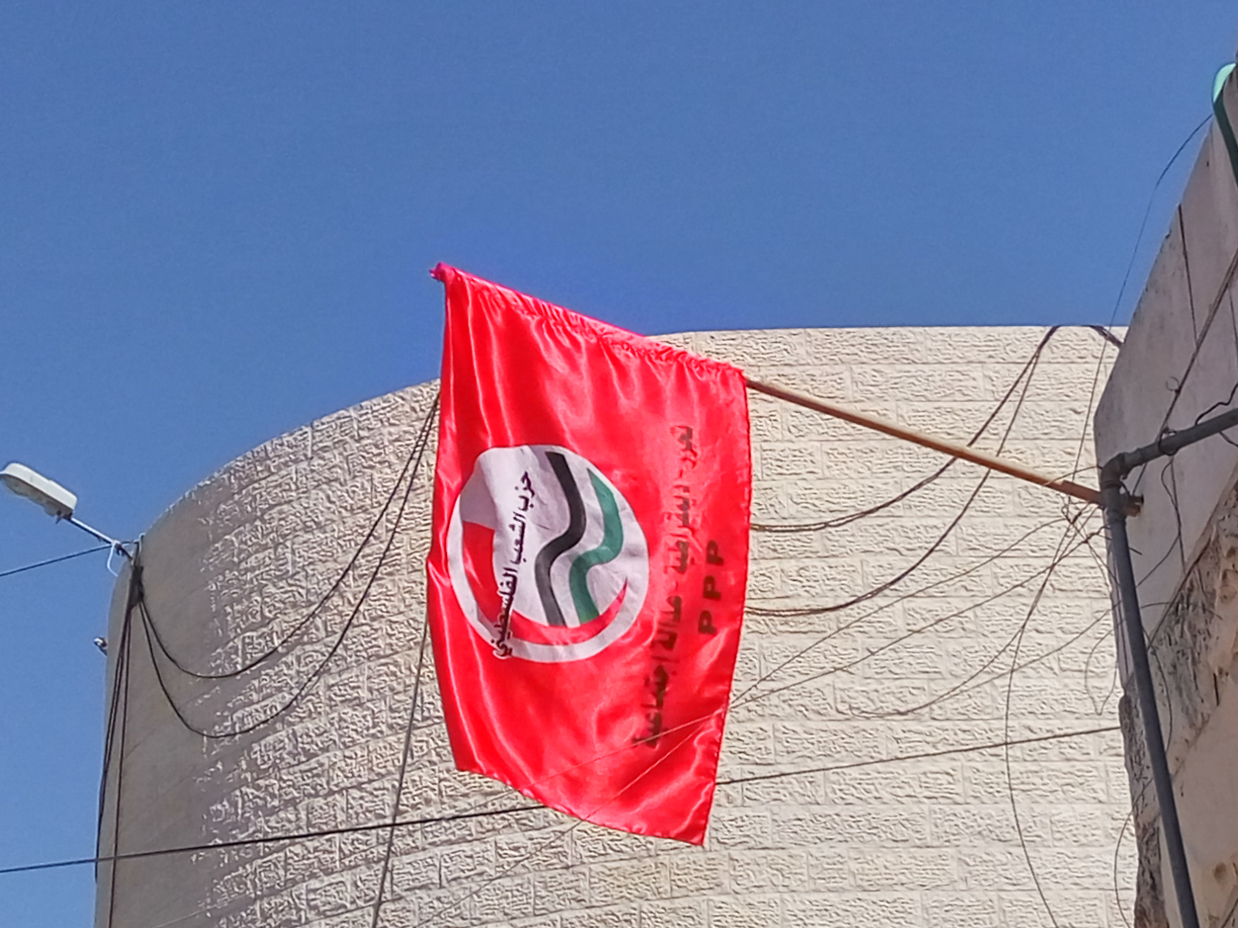 Flag outside Palestinian People's Party office in Hebron